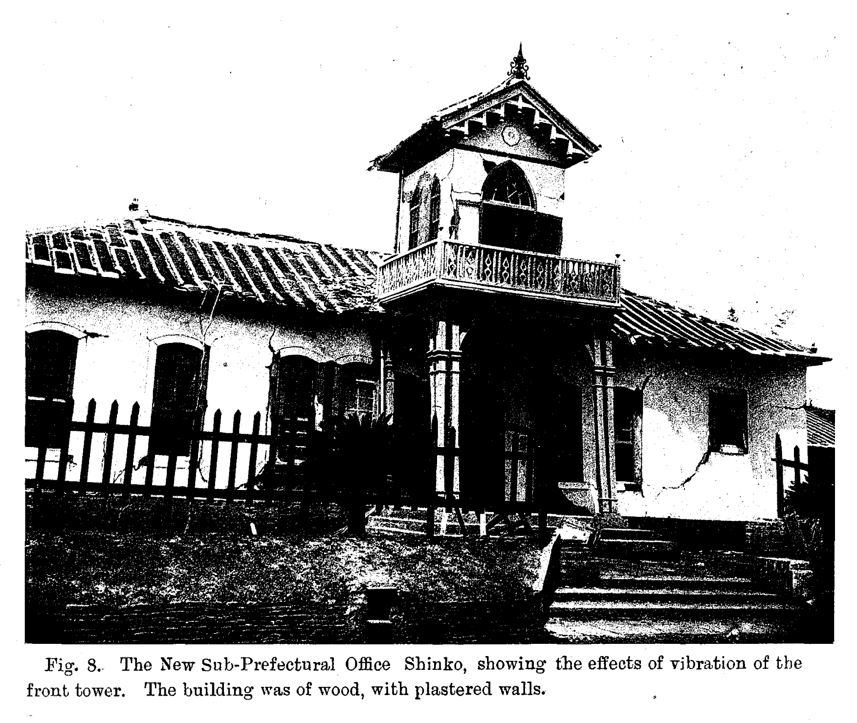 Damage to the new Shinko Sub-prefectural Office following the 1906 Meishan Earthquake.